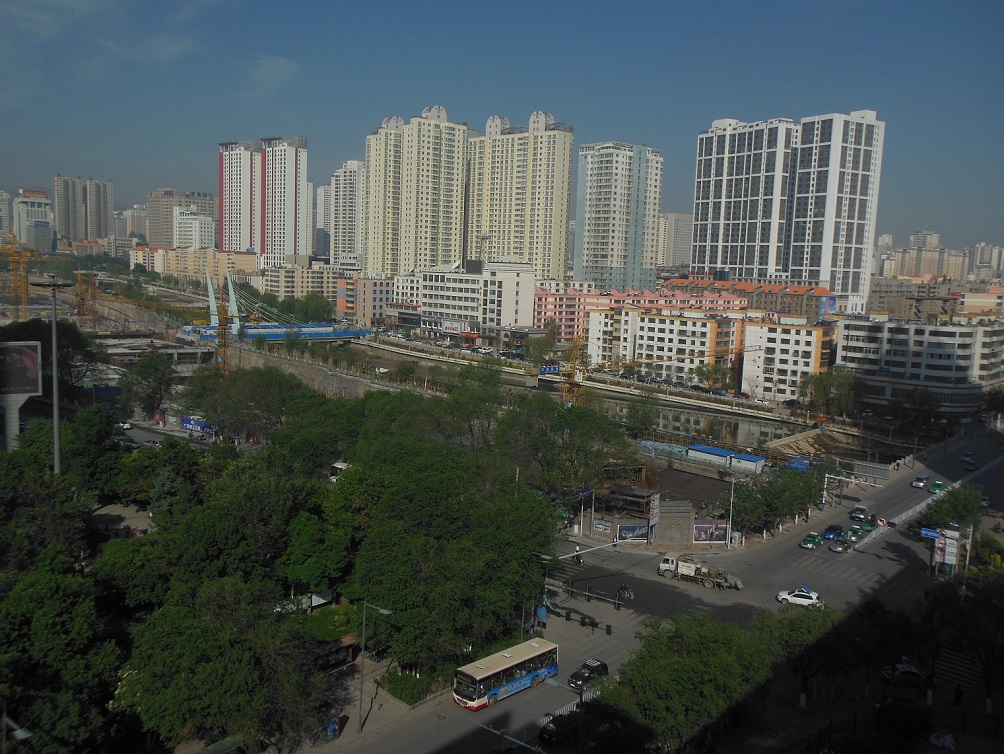 Downtown Xining (2015)